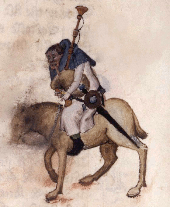 A drawing of the the Miller from The Miller's Prologue and Tale.